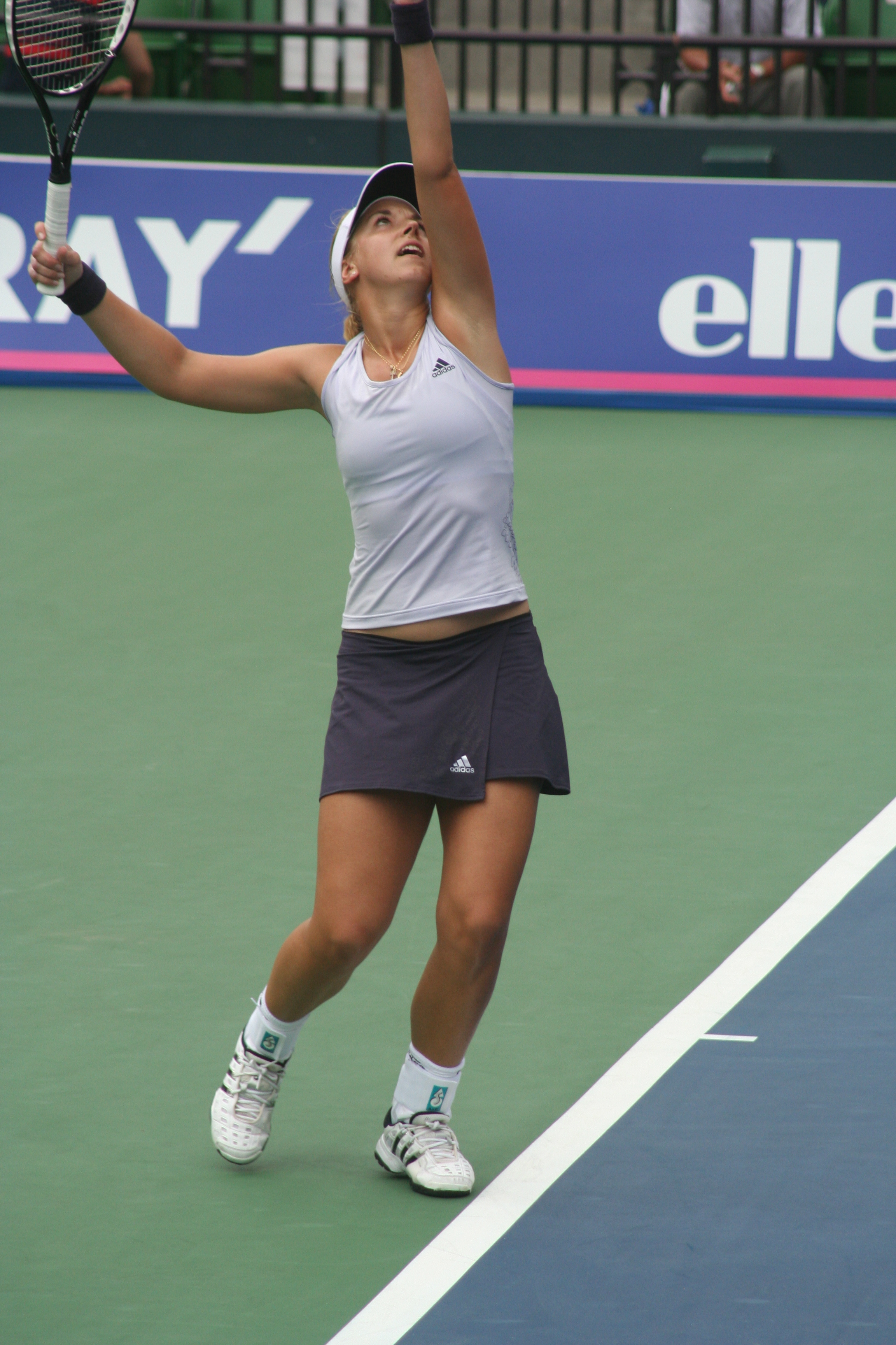 German Tennis player Sabine Lisicki on the opening day of the Toray Pan Pacific Open 2009 in Tokyo.